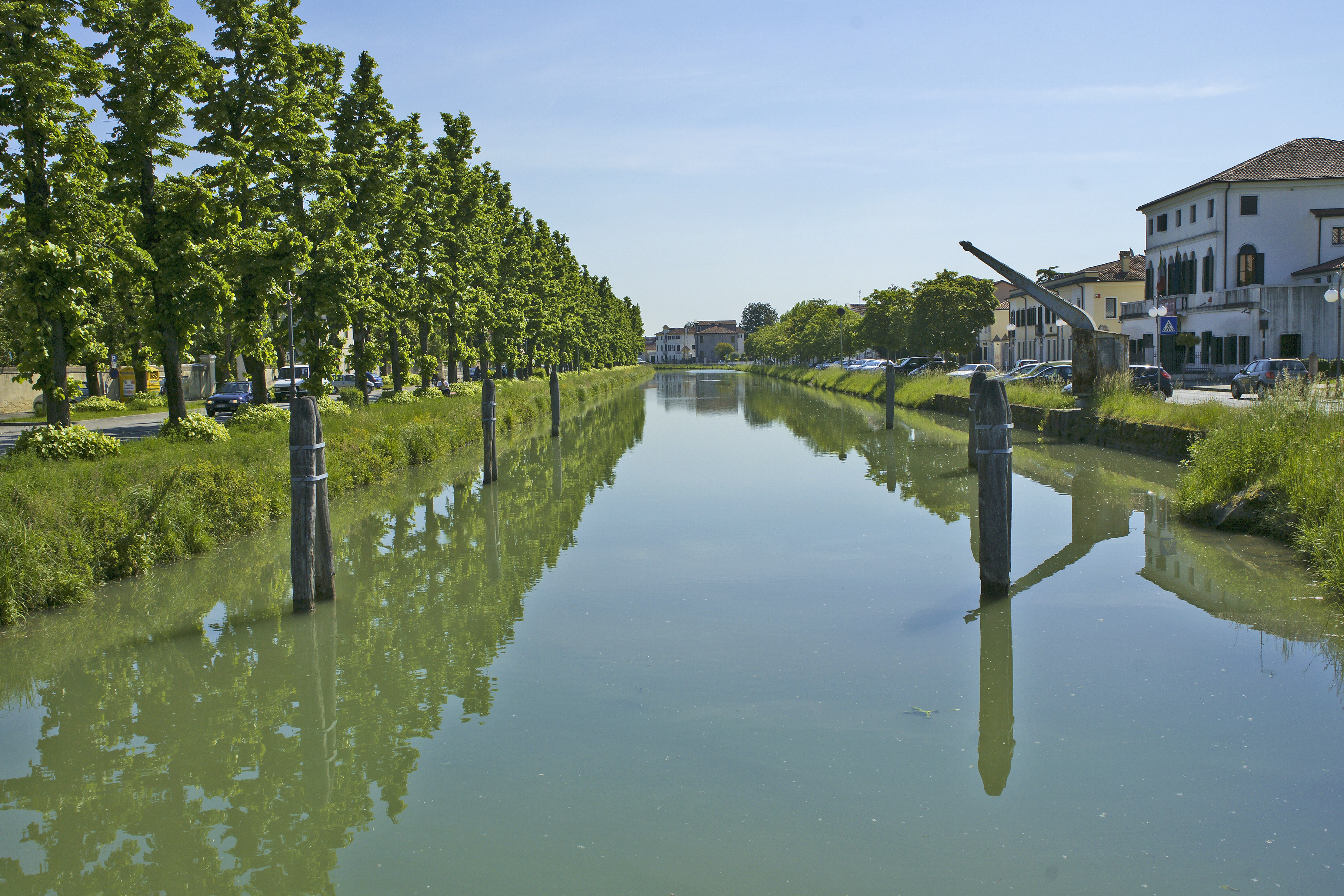 Naviglio del Brenta in Mira.